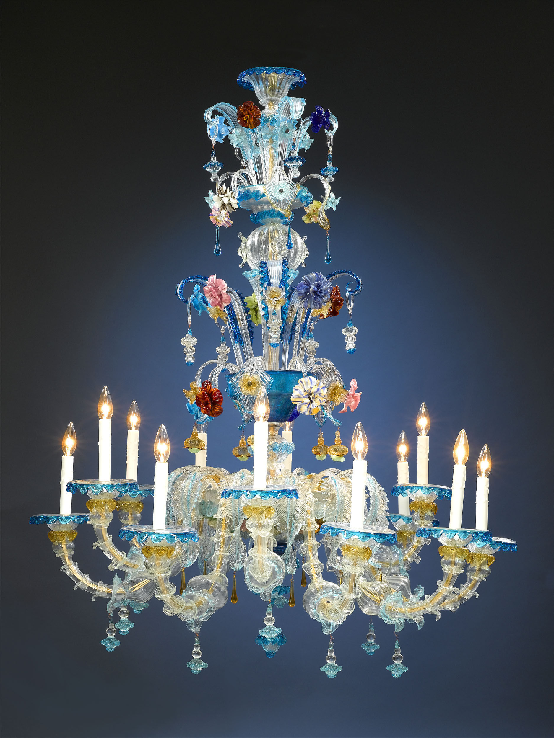 Venetian Murano Glass Chandelier. Circa 1880